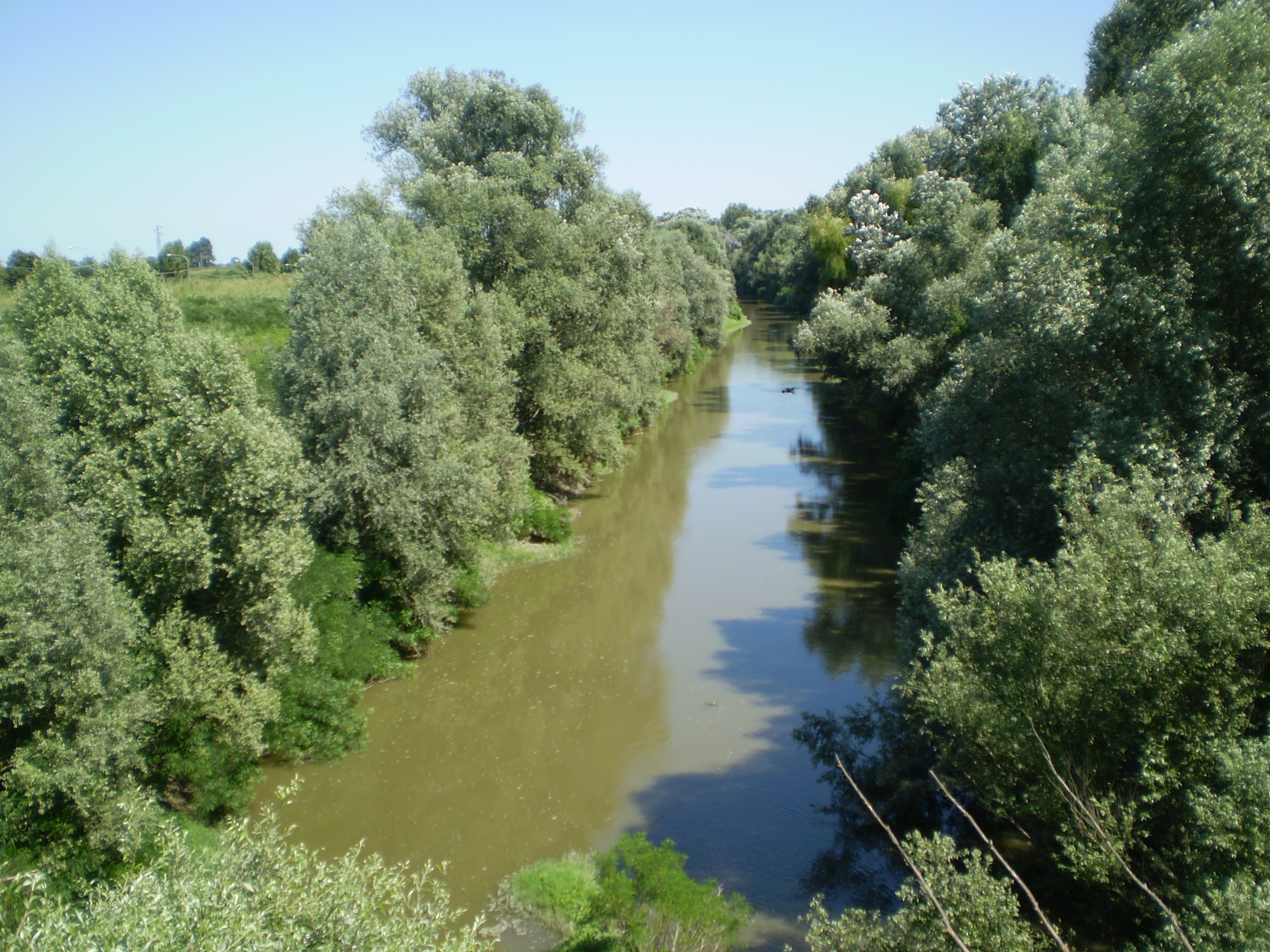 The river Reno near Molinella(BO)